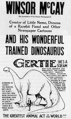 Newspaper advertisement for Winsor McCay's film Gertie the Dinosaur, published in Variety and other magazines in December 1914